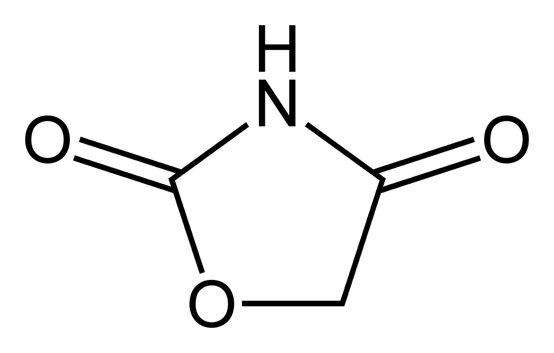 Skeletal formula of the oxazolidinedione molecule, C3H3NO3